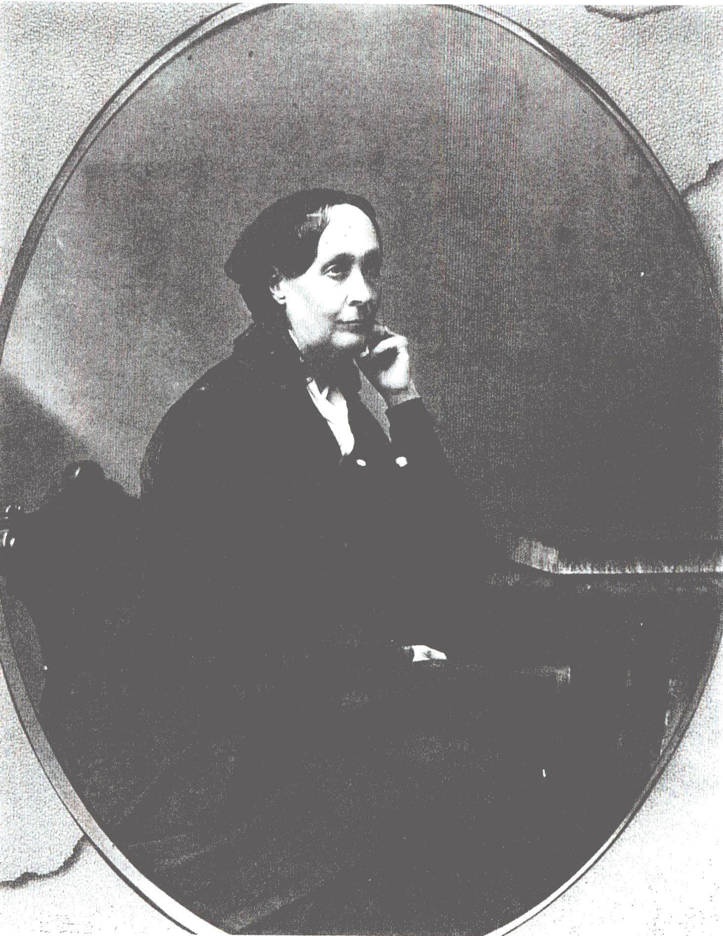 Millisent Dexter, wife of Judge Samuel W Dexter